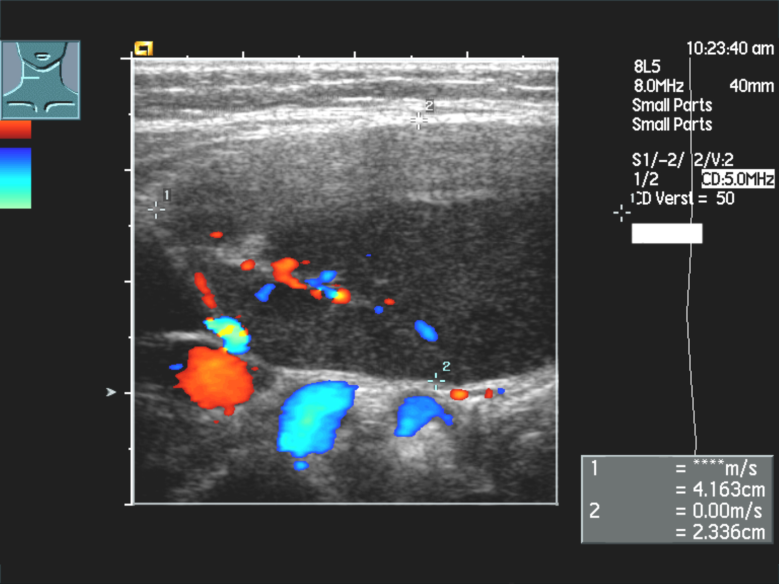 Ultrasound of the throat in highly-malignant non-hodgkin lymphoma present as lymph node swelling in a child (transverse section with color-coded doppler flow imaging).